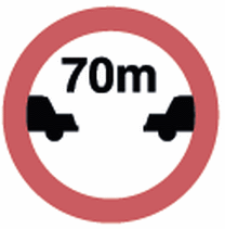 Diagram of road signs of Luxembourg